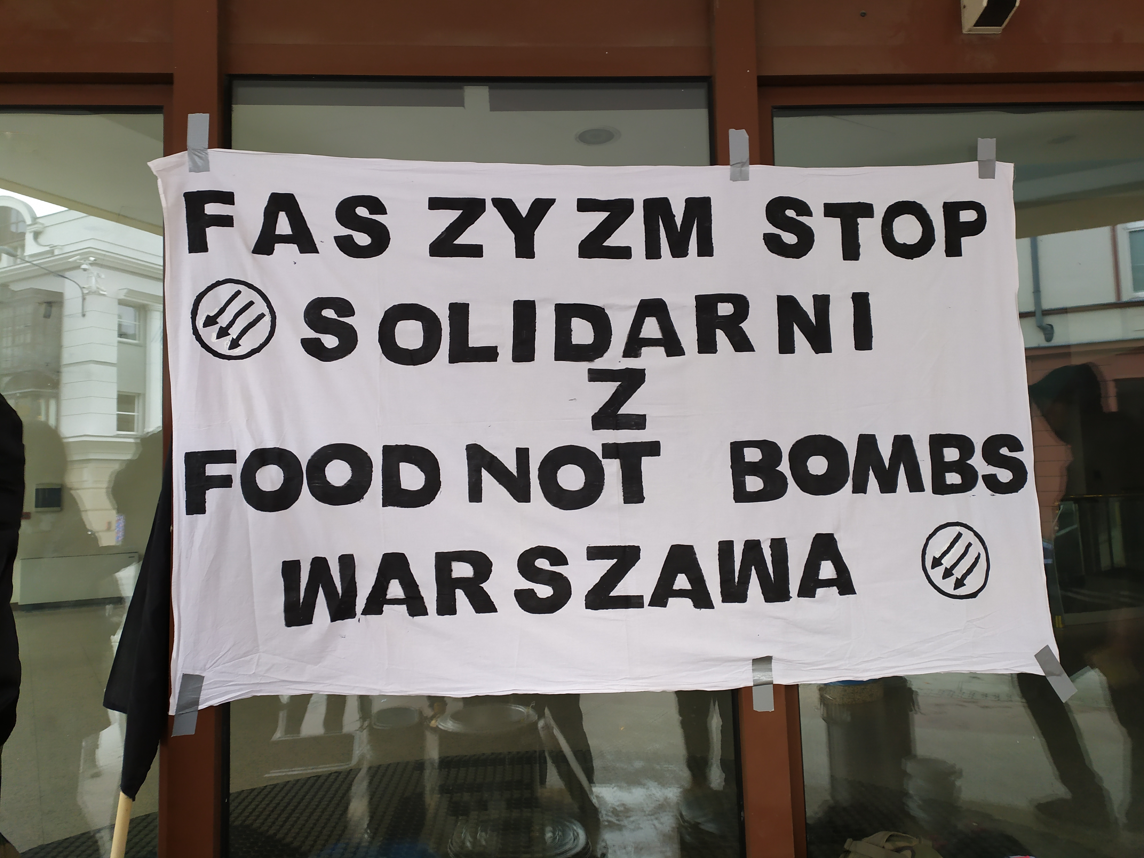 Food Not Bombs banner in Łódź a week after the neo-Nazis attack on Food Not Bombs Warsaw